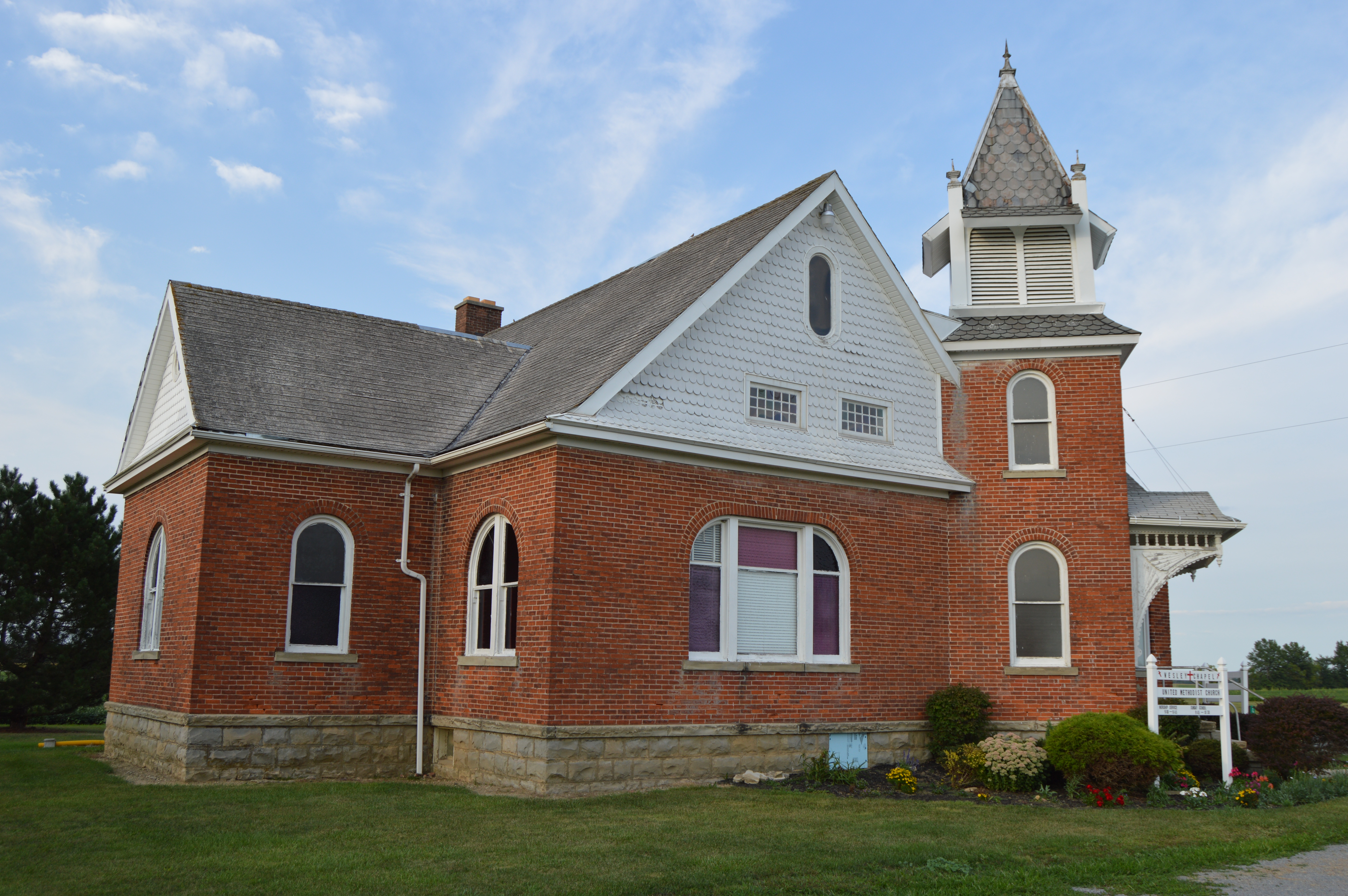 Front and western side of Wesley Chapel Methodist Church, located at the intersection of County Roads 63 and 103 in Mifflin Township, Wyandot County, Ohio, United States. It was built in 1902.